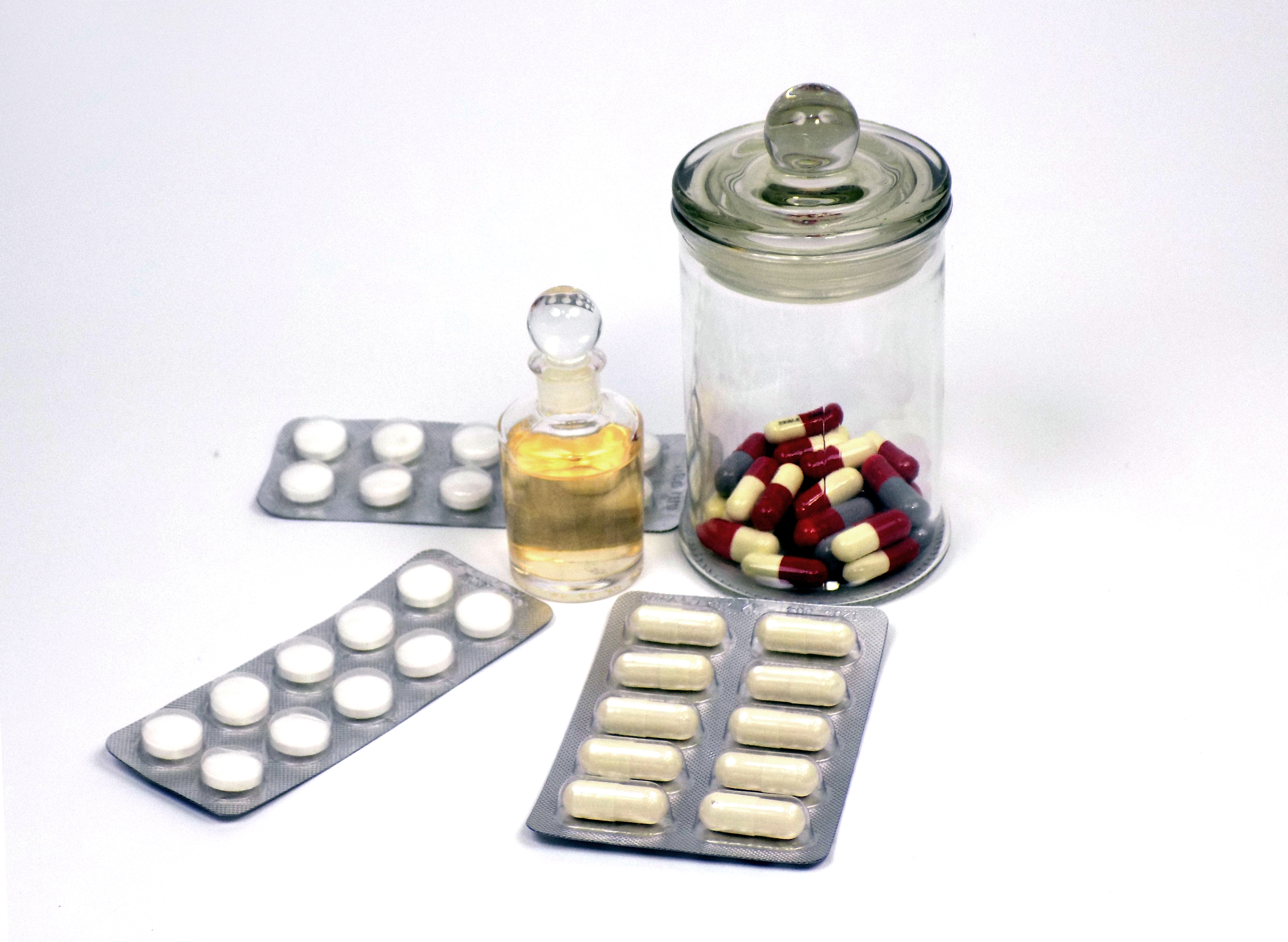 Pills and medicines in the retro styled jars